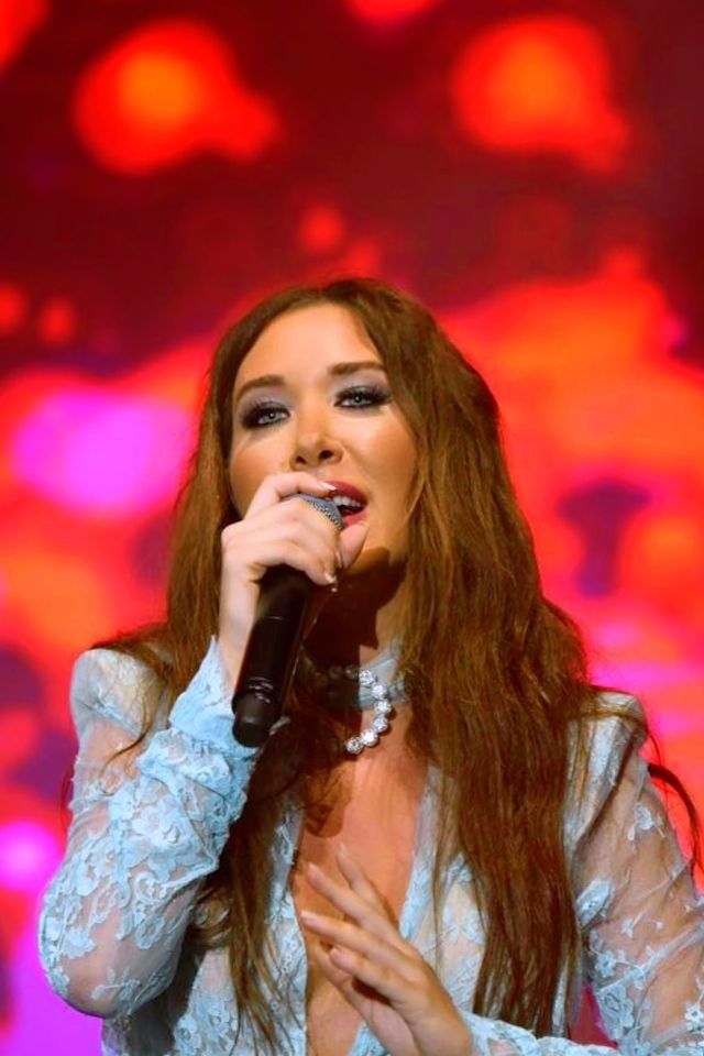 Sabine - Majdel El Meouch Festival - August 15, 2017